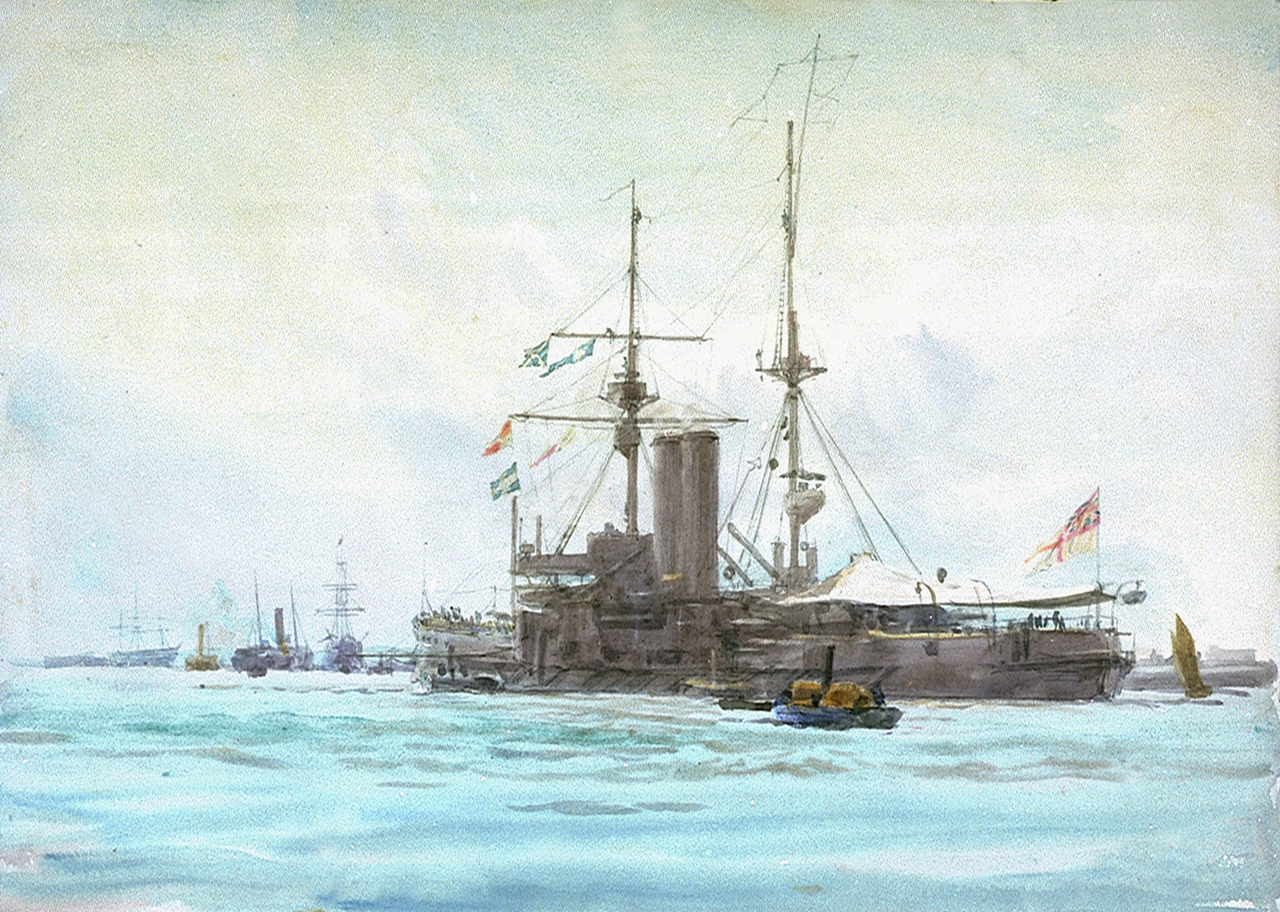 HMS 'Africa', battleship, probably at Portsmouth Shown as completed in November 1906 with masthead semaphore and W/T gaff. During 1907 the semaphore was removed and the W/T gaff was triced. The Wyllies moved to Portsmouth in 1906, so it is probably an early drawing done after that.